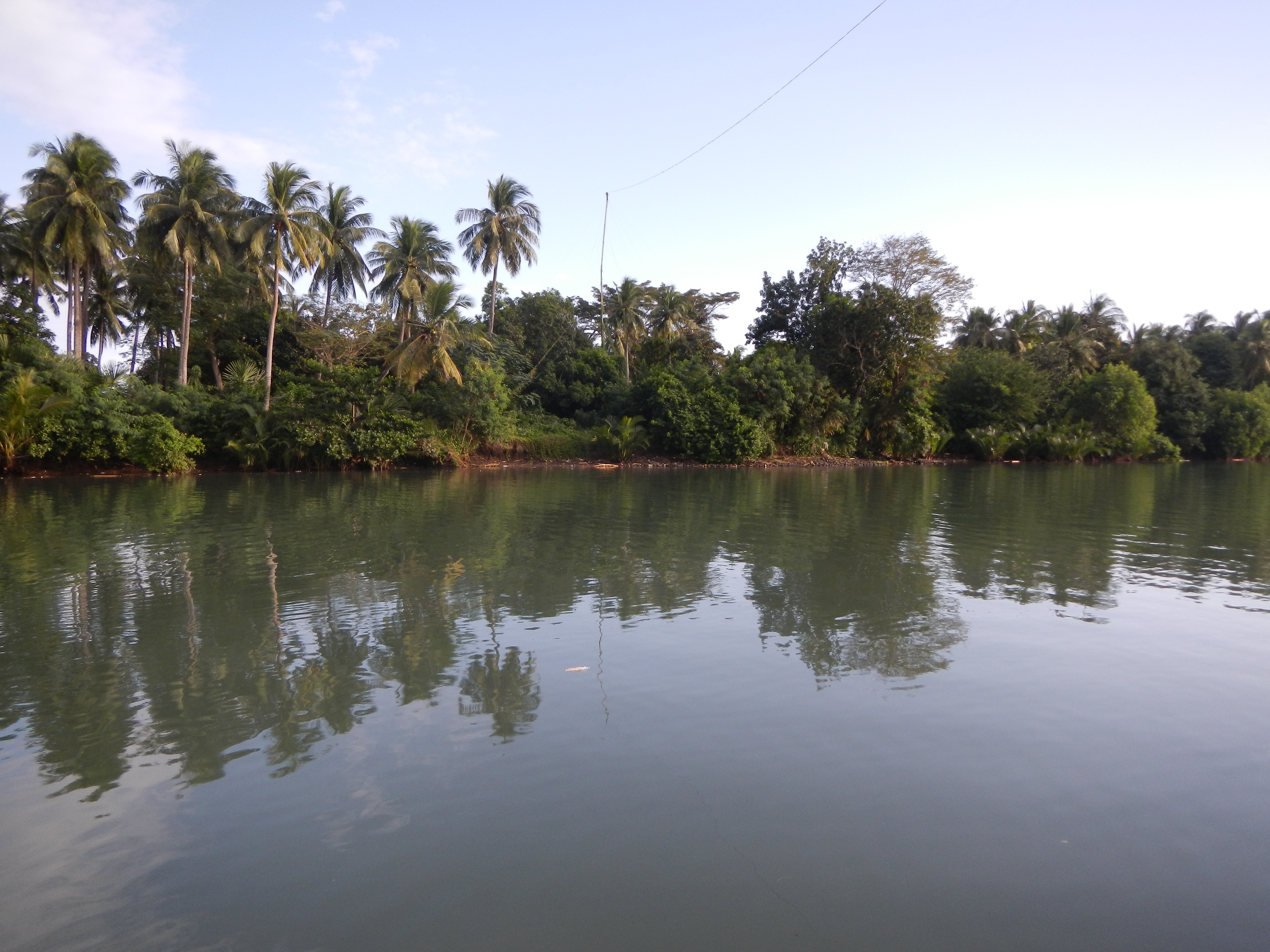 Upload Wizard photos of - Lucena, Philippines [1] - Lucena River - the two rivers, Dumacaa River on the east and Iyam River on the west Lucena River [2] Coordinates: 13°54'10"N 121°36'20"E underneath the - in Barangay Cotta Pier[3].